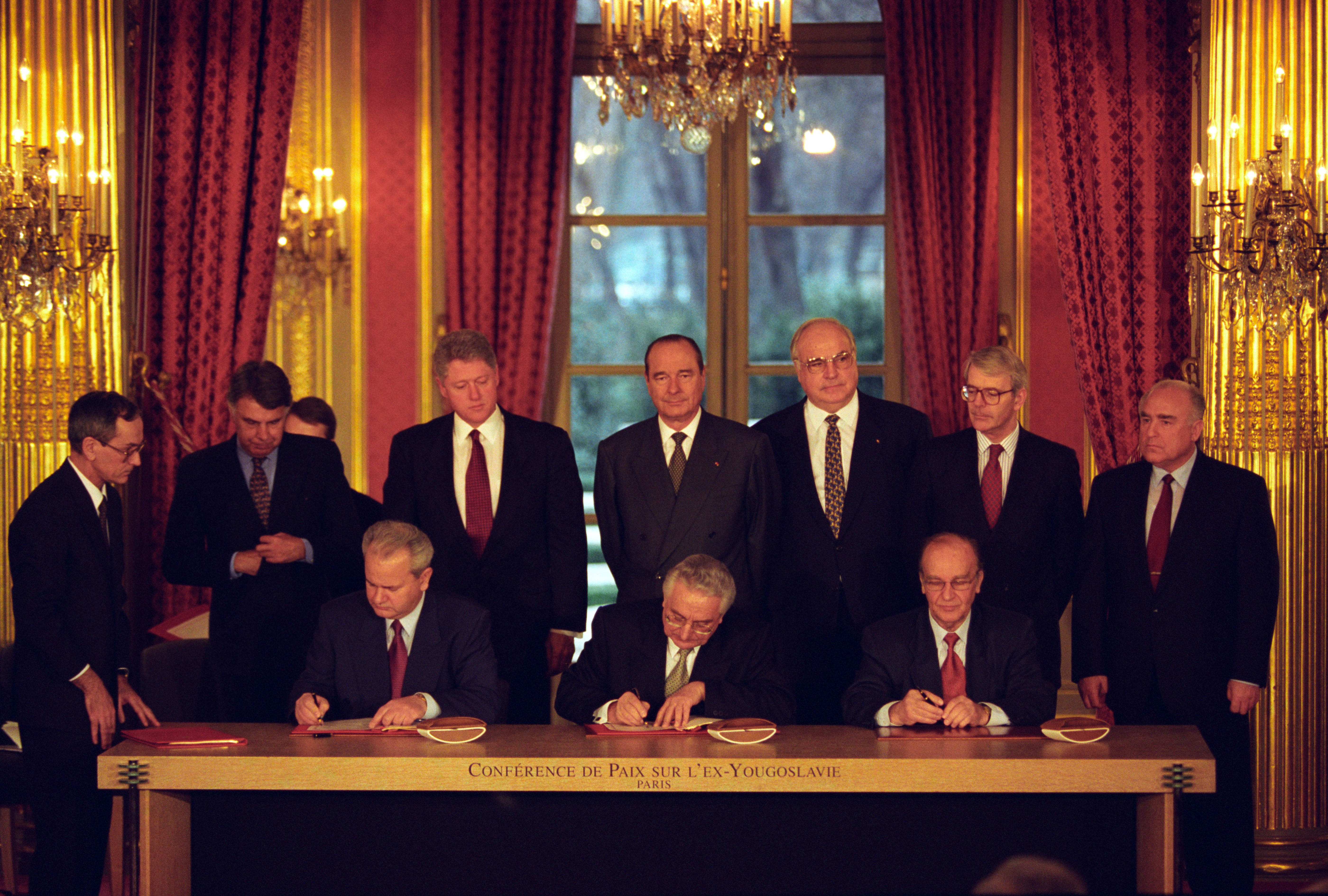 December 14, 1995: Serbian President Slobodan Milosevic, Bosnian President Alija Izetbegovic, and Croatia President Franjo Tudjman sign the Balkan Peace Agreement at the Quai d’Orsay (Foreign Ministry) in Paris. (Credit: William J. Clinton Presidential Library) Hosted by the Clinton Library and the Clinton Foundation, the document release was spearheaded by CIA’s Historical Review Program (HRP), which identifies, collects and produces historically relevant collections of declassified materials. The Bosnia collection—the youngest ever released in HRP’s 20-year existence—is available online at A video recording of the symposium is available at